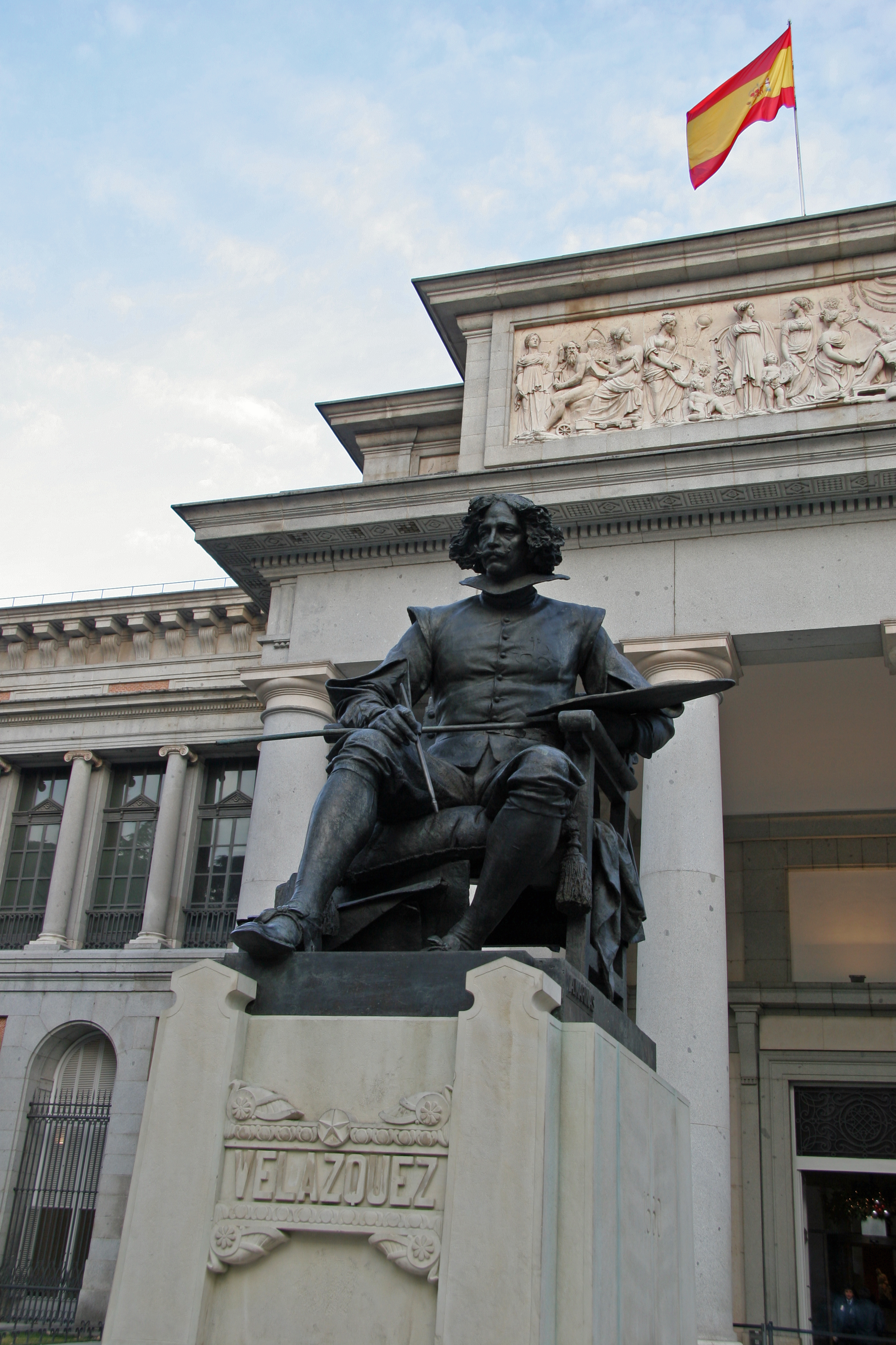 Statue of painter Diego Velázquez outside the Prado Museum in Madrid (Spain). Made by Aniceto Marinas in 1899.